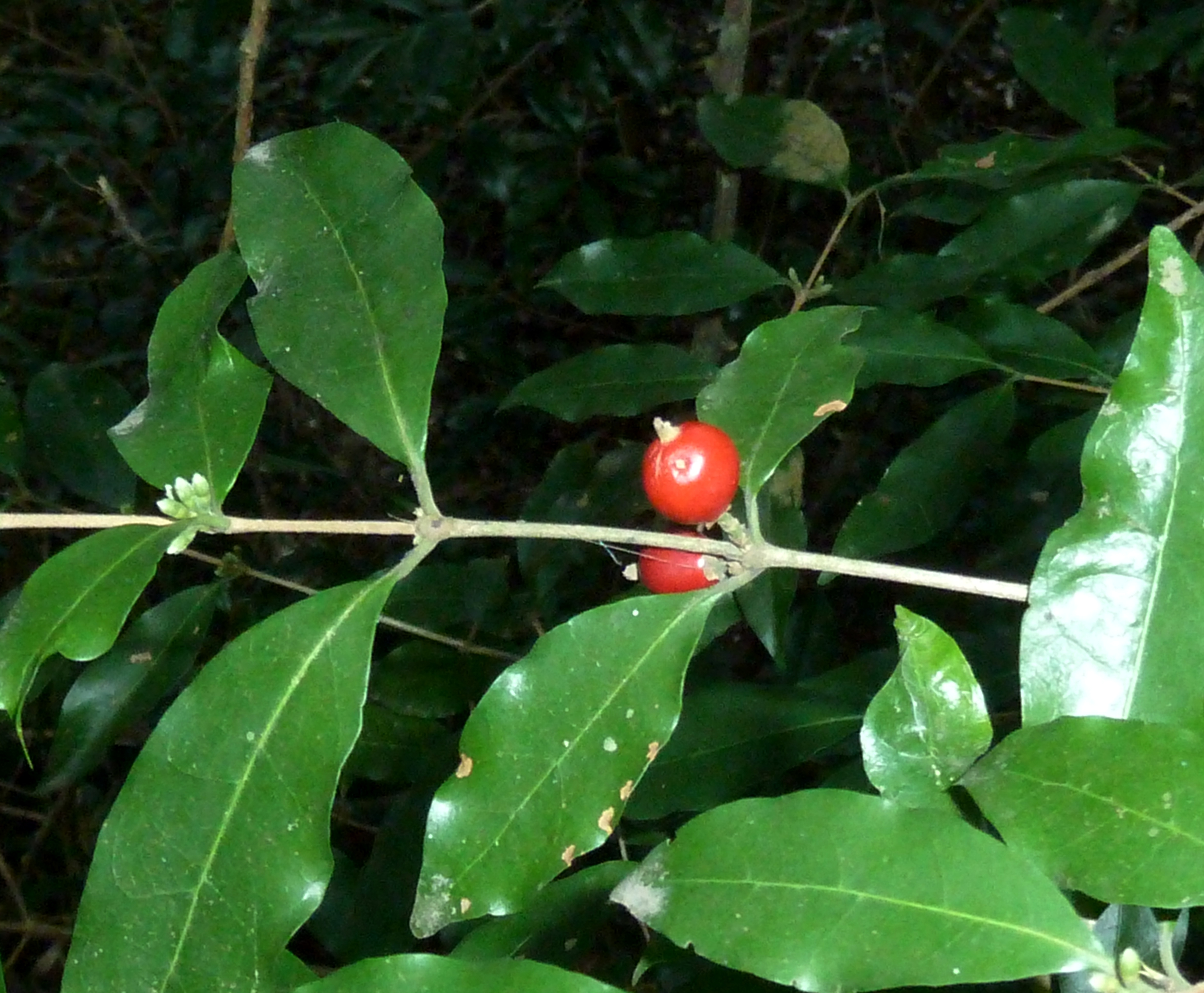 Fruit and foliage of a Forest Jackal-coffee in the Krantzkloof Nature Reserve in KwaZulu-Natal